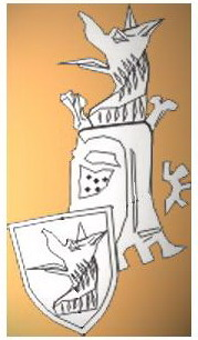 Picture of coat of arm, which is on the silver coin Djuradj Stracimirovic Balsic (1385-1403).